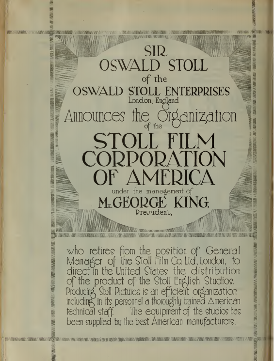 ad for the creation of Stoll Film Corporation of America